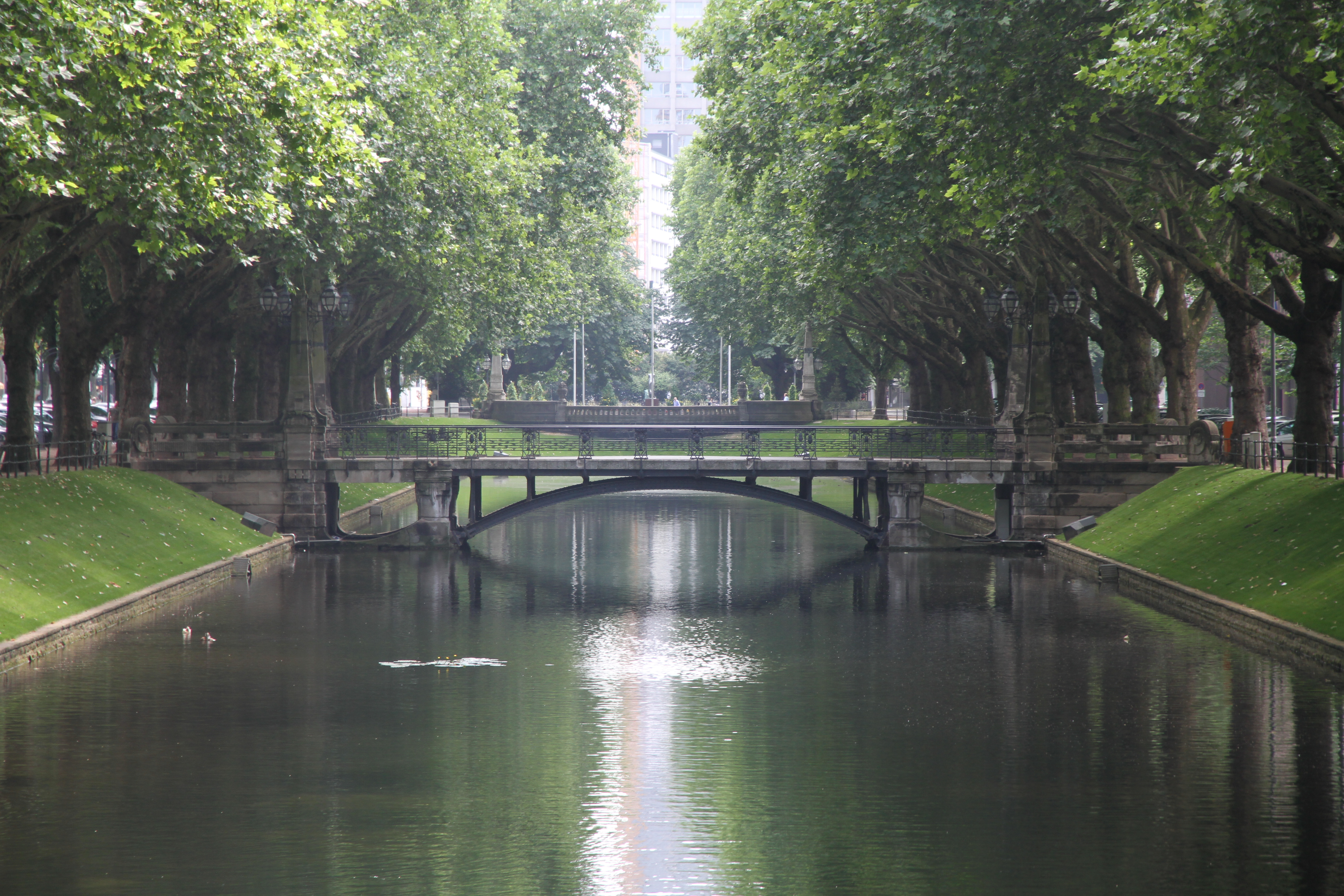 View from the Benrather Straße to the south end of the Königsalle in Düsseldorf.